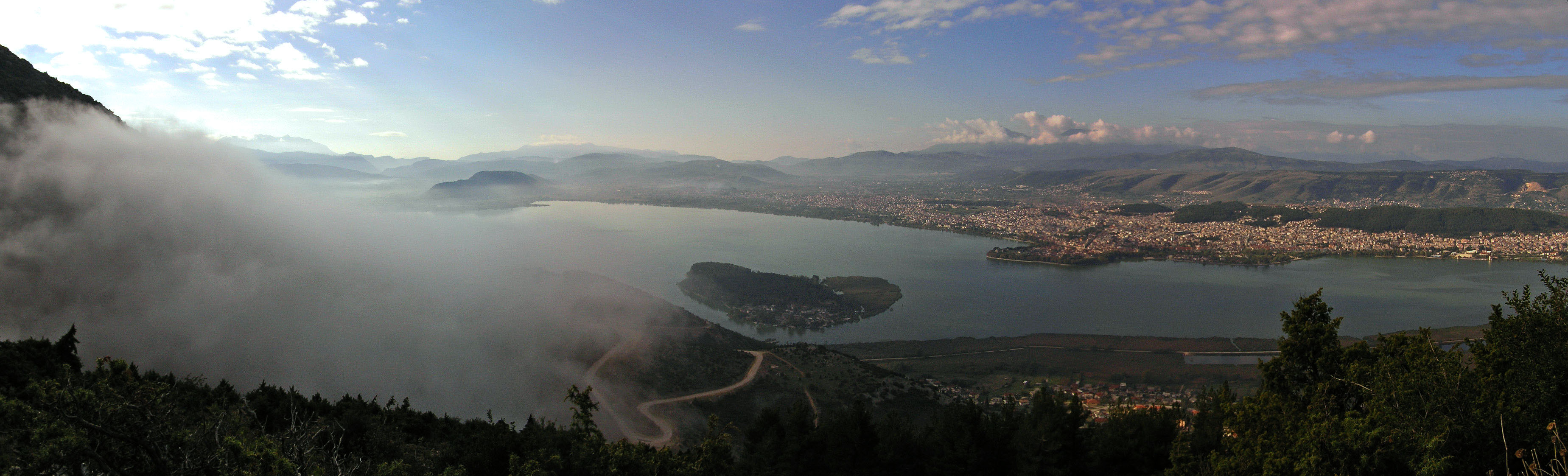 View of Ioannina city from Mitsikeli This is a photography of Natura 2000 protected area with ID GR2130008